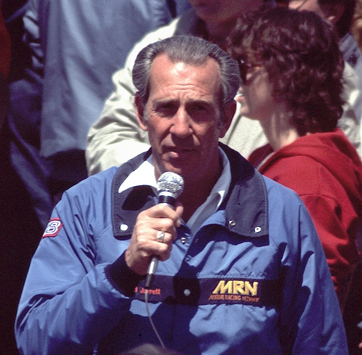 Former NASCAR champion Ned Jarrett broadcasting on MRN Radio. Photo by Ted Van Pelt